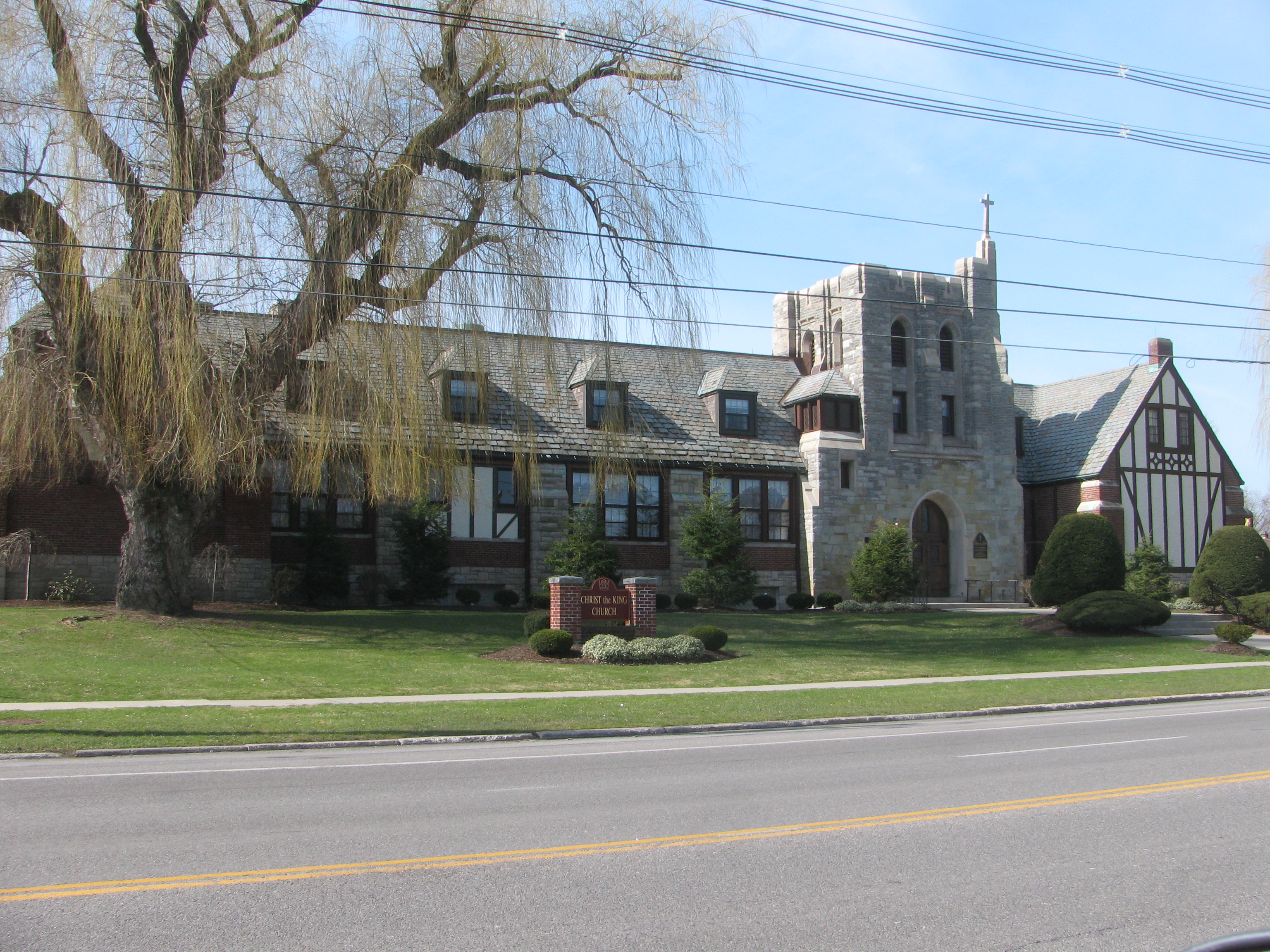 Christ the King Church in Snyder New York